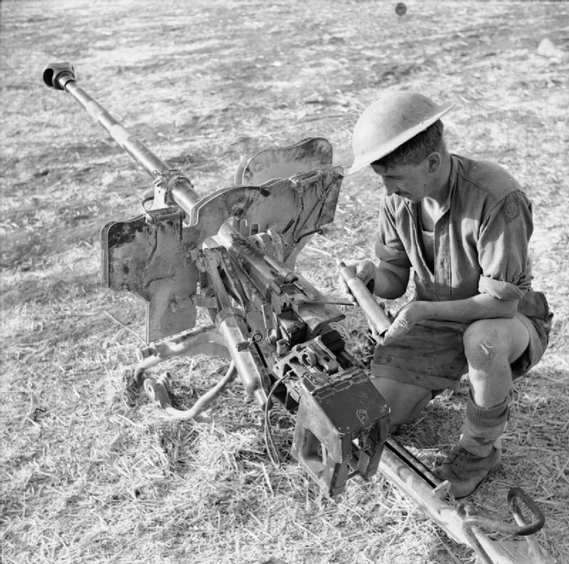 The British Army in Sicily 1943 A soldier examines a captured German 28mm sPzB 41 anti-tank gun, 21 July 1943.